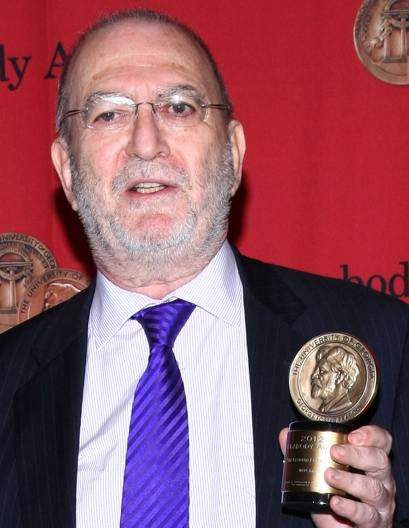 PHOTO CREDIT: ANDERS KRUSBERG / PEABODY AWARDS Leonard Lopate, 72nd Annual Peabody Awards Luncheon Waldorf-Astoria Hotel May 20, 2013